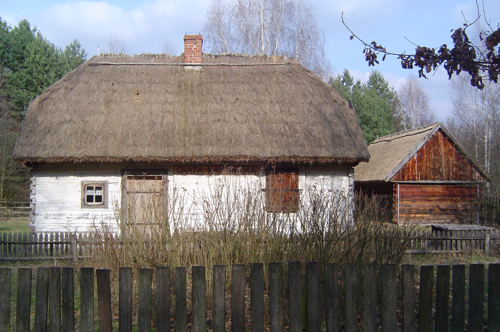 open air museum in Granica